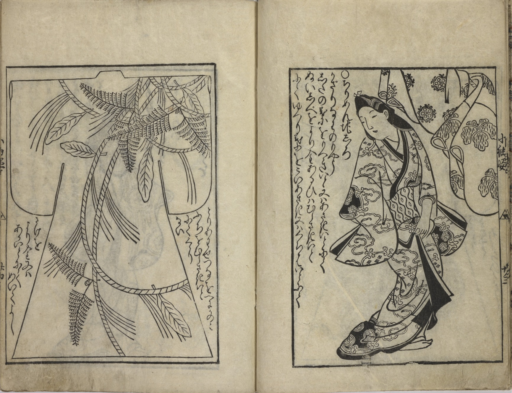 Hishikawa Moronobu, Kosode no sugatami, Edo period, 1683. H x W x D: 22.6 x 15.9 x 0.4 cm . Freer gallery of Art